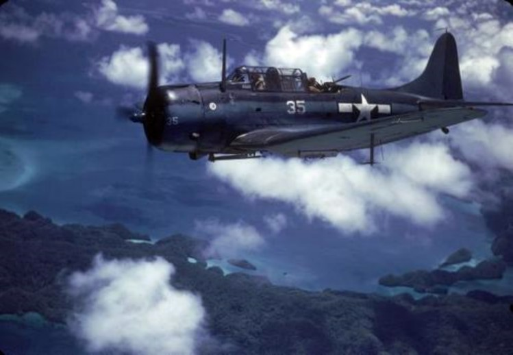 A U.S. Navy Douglas SBD-5 Dauntless in flight over Peleliu, September 1944.